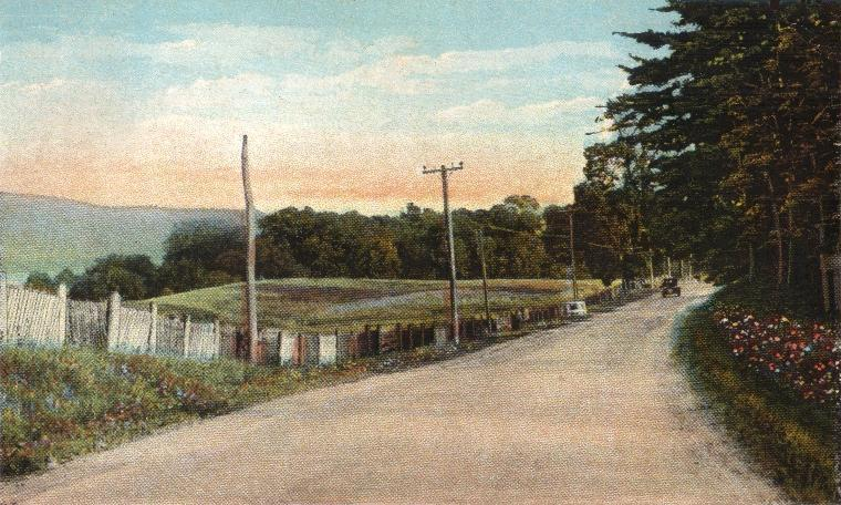 Scene near Sheffield, MA; from a c. 1920 postcard published by C. W. Hughes of Mechanicville, New York.